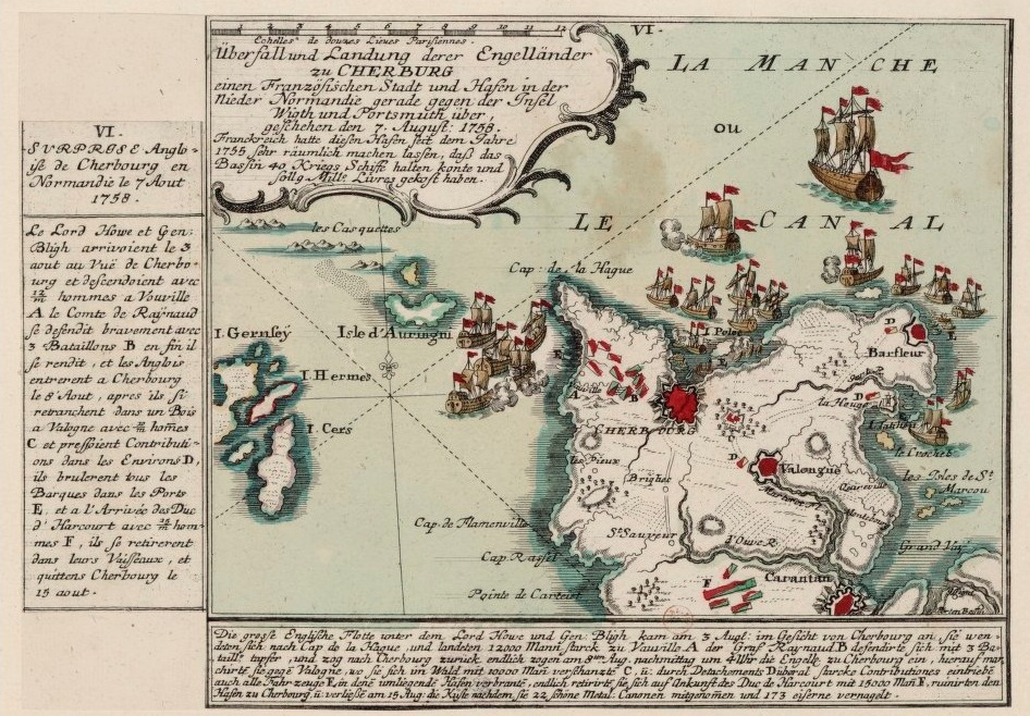 Plan of the English attack on Cherbourg in 1758. Commentary in French and German.